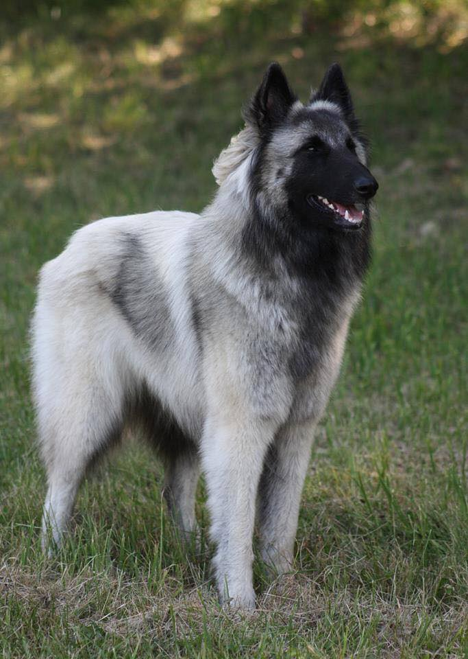 Belgian Shepherd Dog - Tervueren Himbi's Happy Hana 15 months